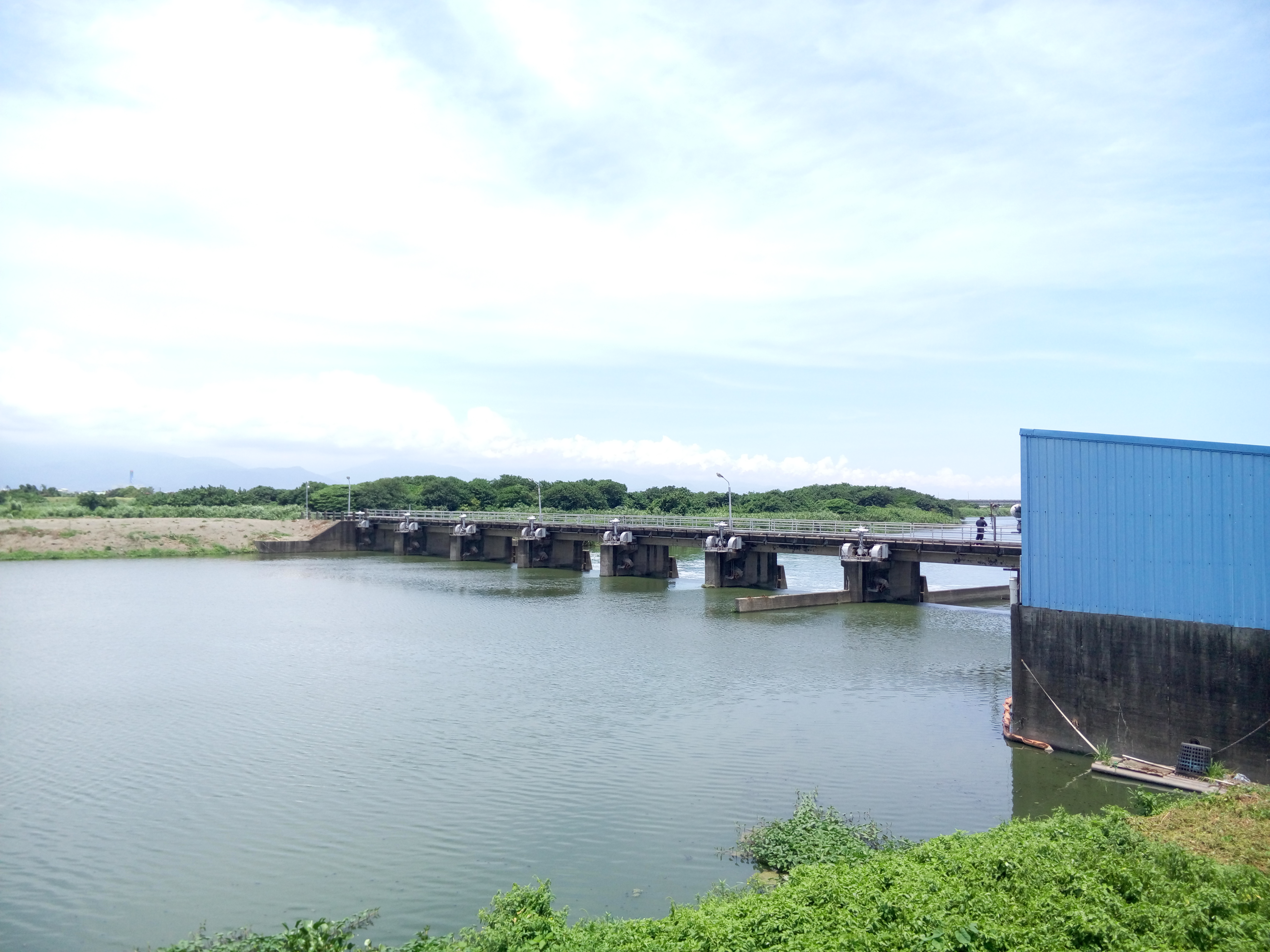 Donggang River Weir